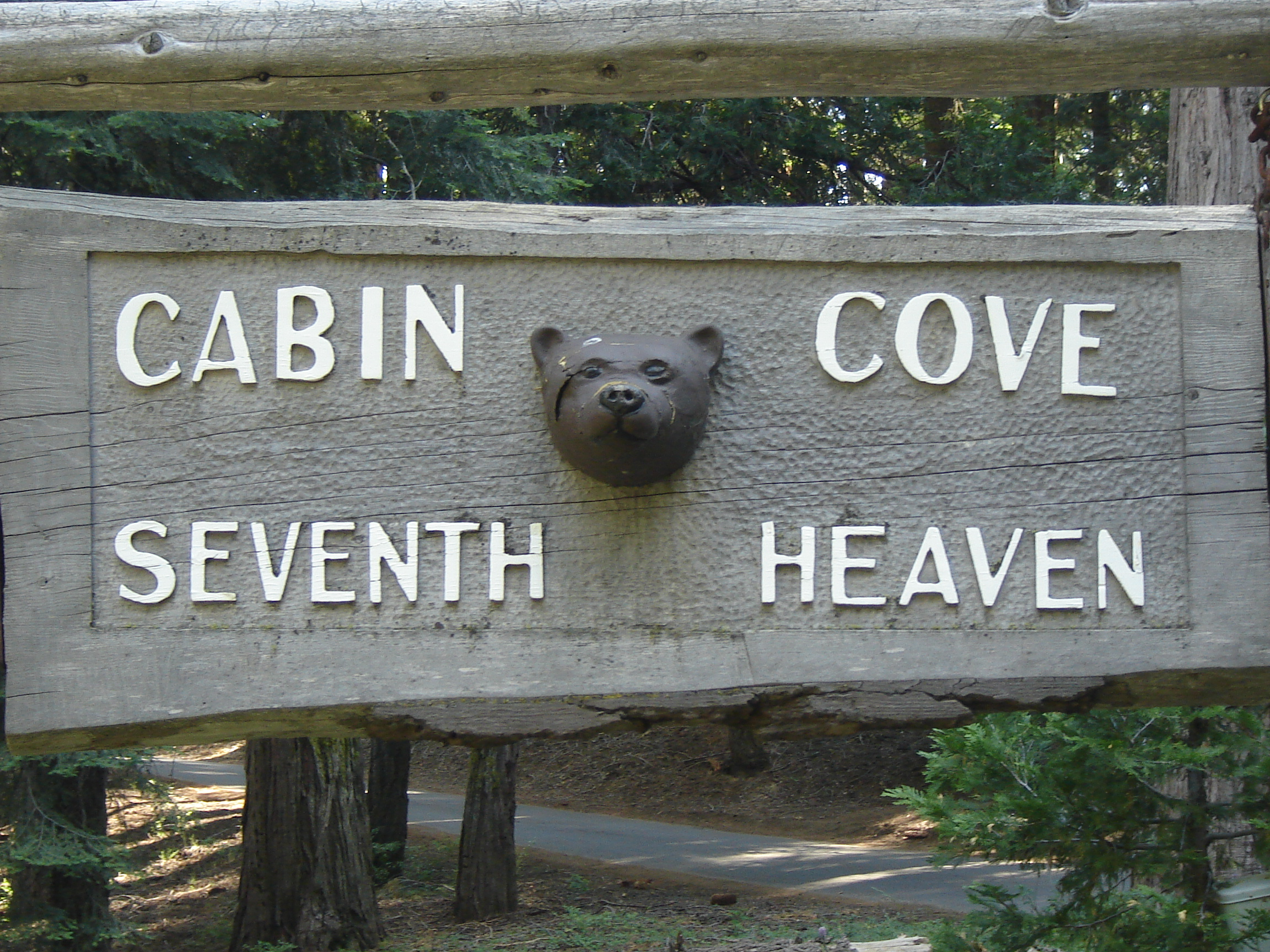 Sign at entrance to historic community of Cabin Cove, in the Sierra Nevada and Sequoia National Forest, Tulare County, California. It is located on Mineral King Road, approximately 5 miles downhill from Mineral King, surrounded by Sequoia National Park. July 15, 2006.